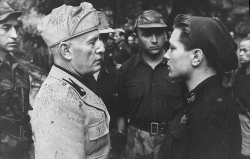 Information added by Wikimedia users.*